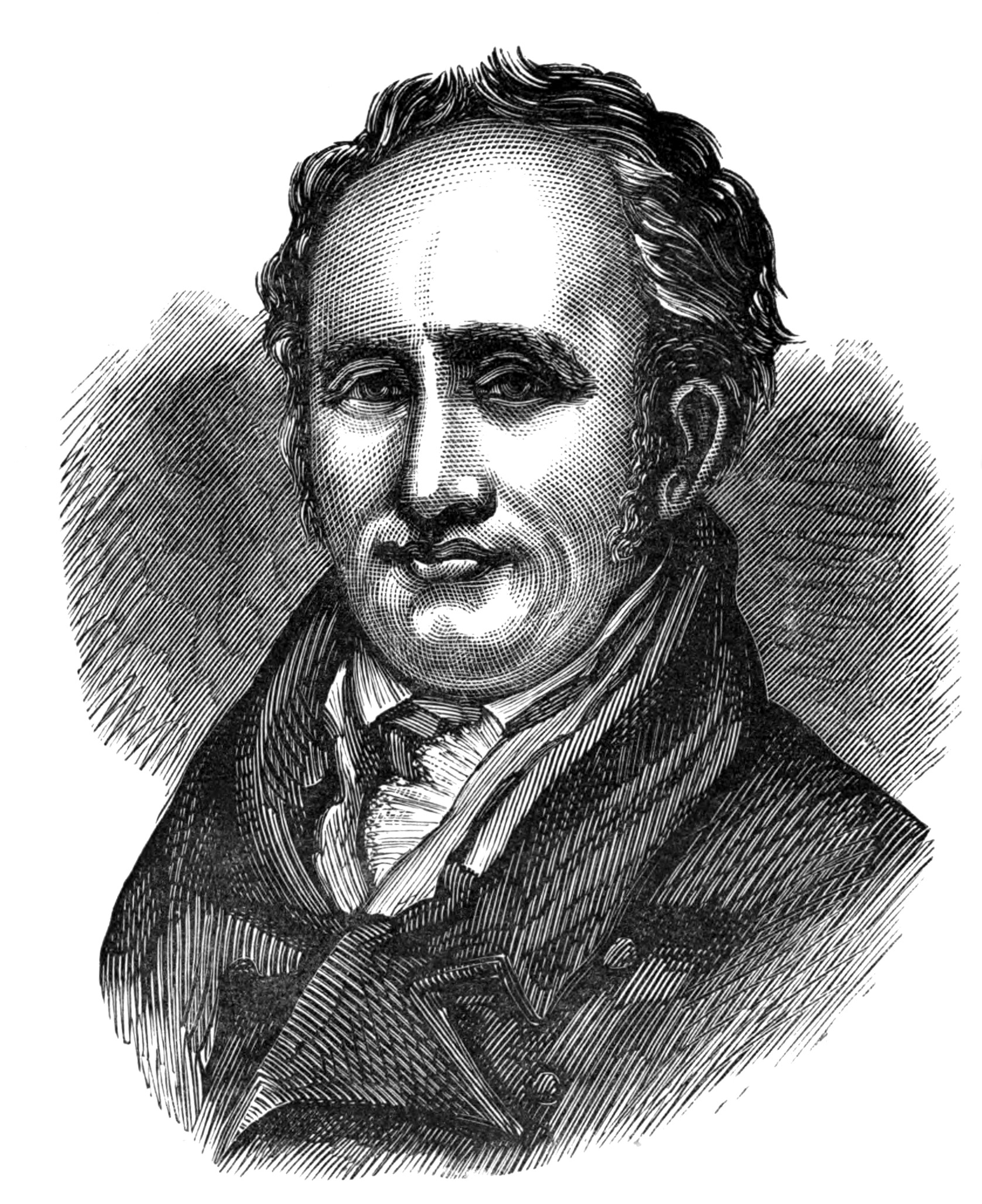 A portrait of Archibald Constable.